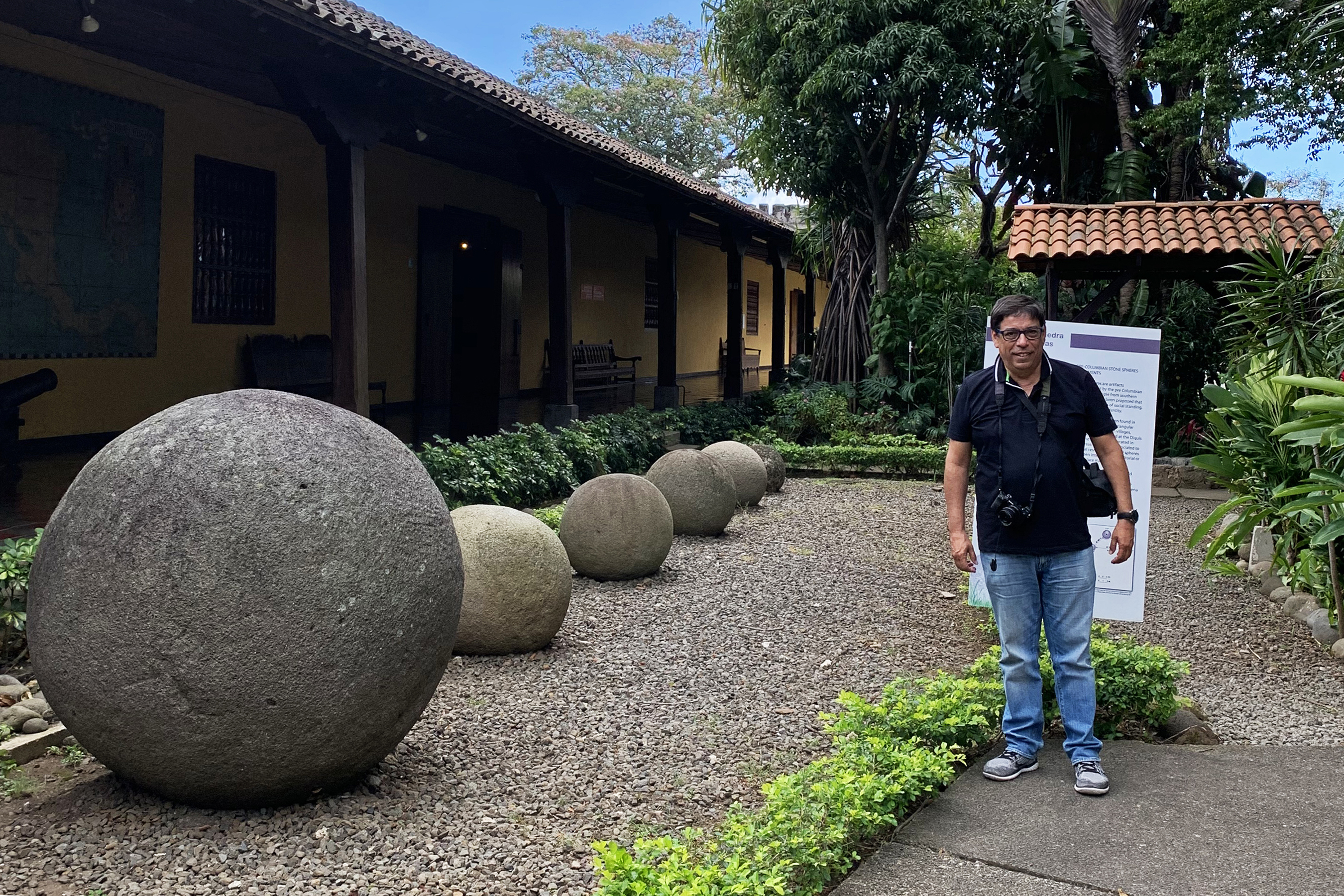 Diquís stone spheres compared to a person of 1.70 m (5' 7") tall. Museo Nacional de Costa Rica, San José.